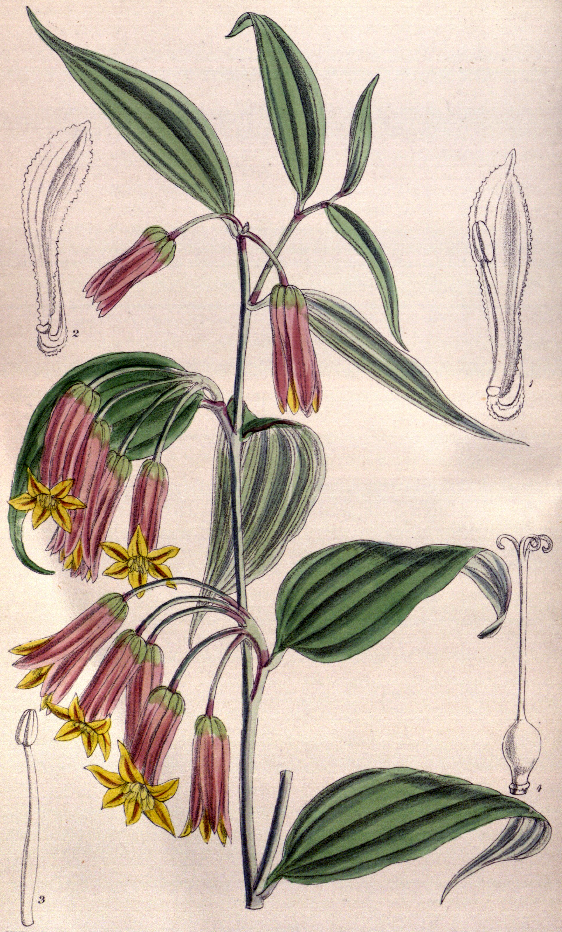 Disporum cantoniense var. cantoniense